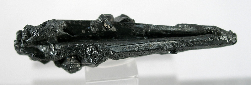 Acanthite Locality: Freiberg, Freiberg District, Erzgebirge, Saxony, Germany (Locality at ) Size: miniature, 3.7 x 1.0 x 0.9 cm Acanthite (doubly-terminated FLOATER) This is a remarkable old specimen , pristine despite being at least 120 years old and probably more ancient than that. I am told by the German collector i exchanged it with that it is from an old museum collection broken up and dispersed 30-40 years ago. The piece is doubly-terminated, and complete all around - a floater! I have never seen for sale on old German acanthite with all these qualities to it, and it is aesthetic as well. This piece has a natural, fairly lustrous patina to it, and thankfully was never cleaned in acid!